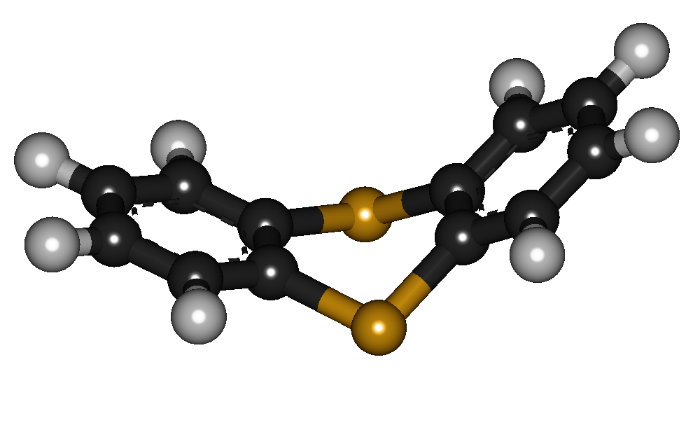 Chemical structure of thianthrene. Low energy conformation as determined by MM2 minimization.